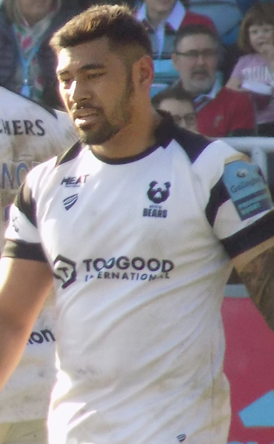 Charles Piutau Bristol rugby v Quins at the Stoop, Feb 2019.